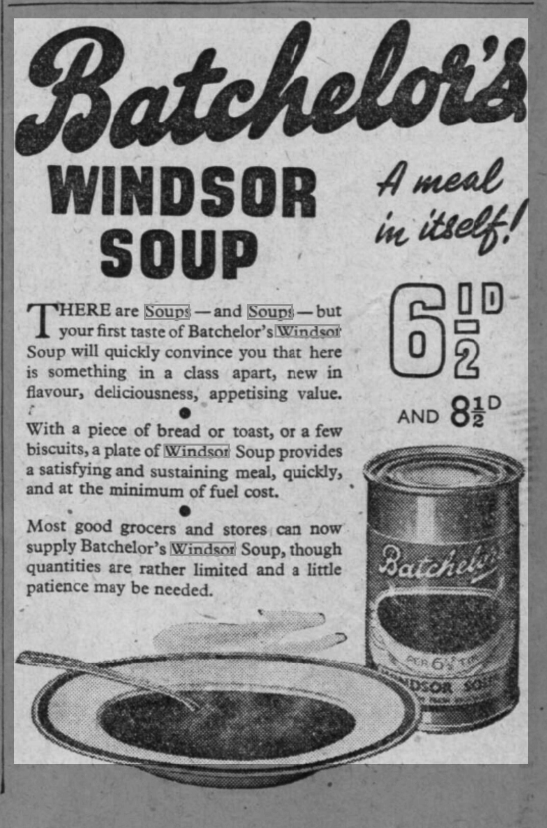 Advertisement for canned Windsor Soup